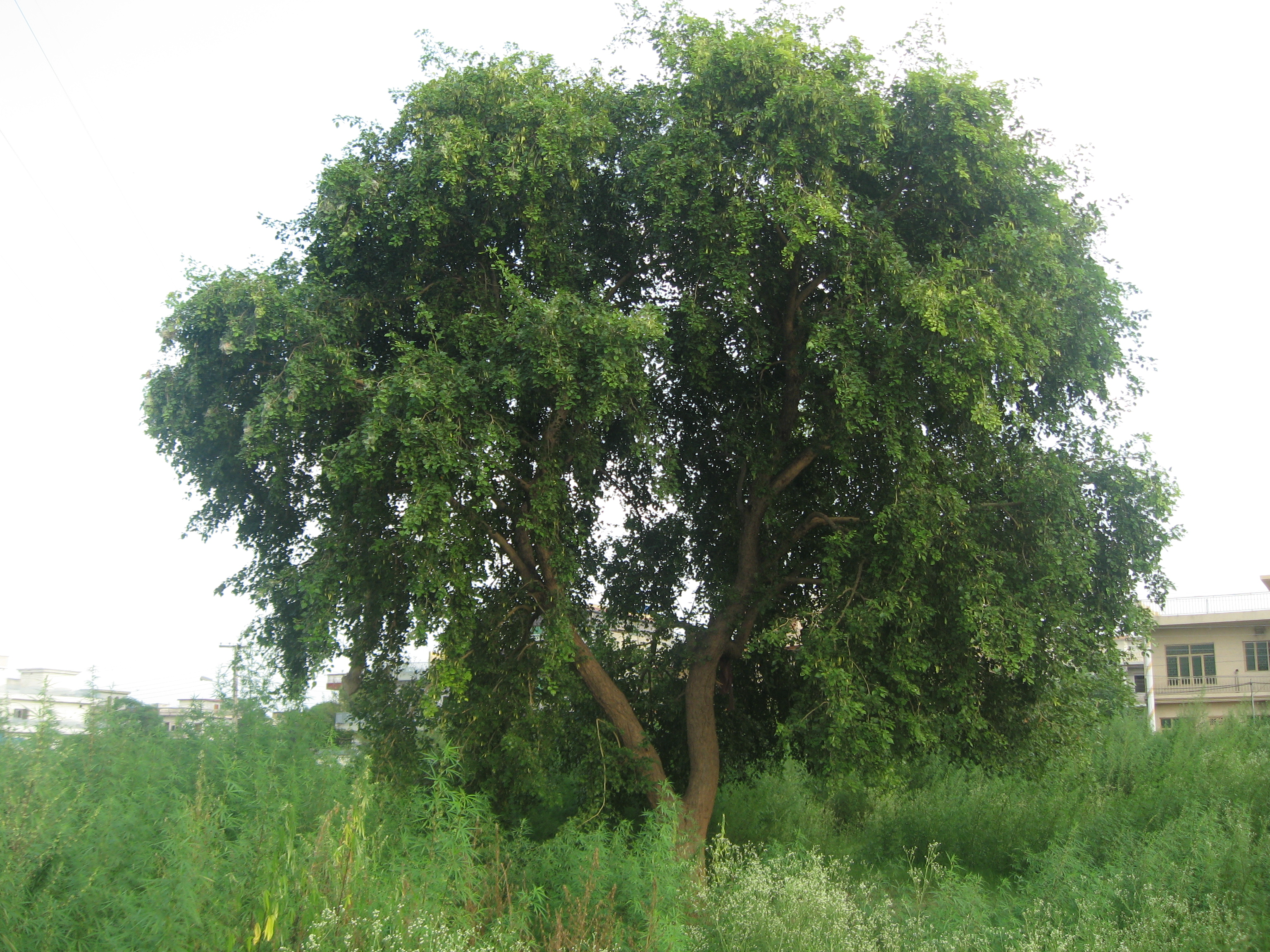 Full tree